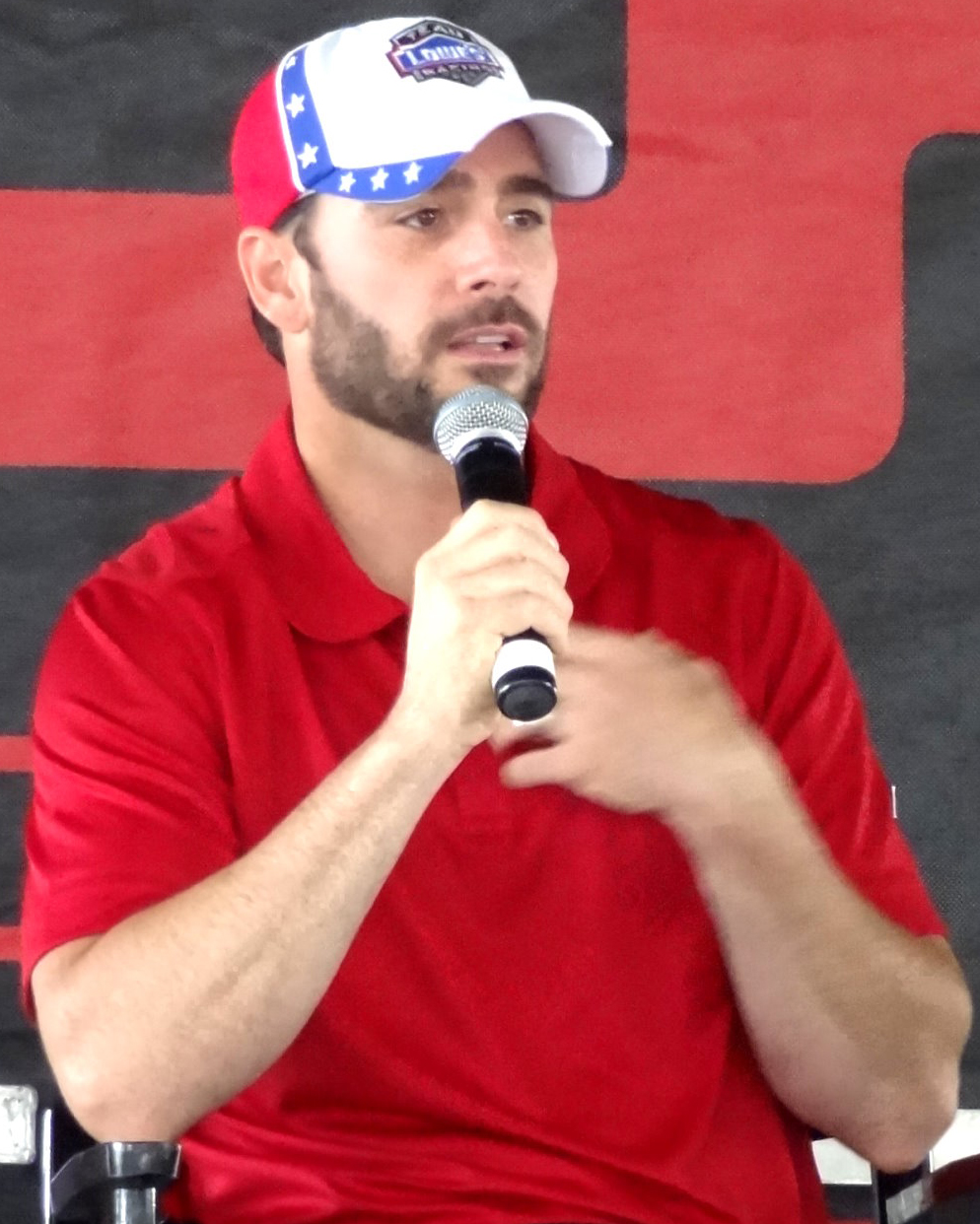 Johnson at the Chevrolet fan meeting.